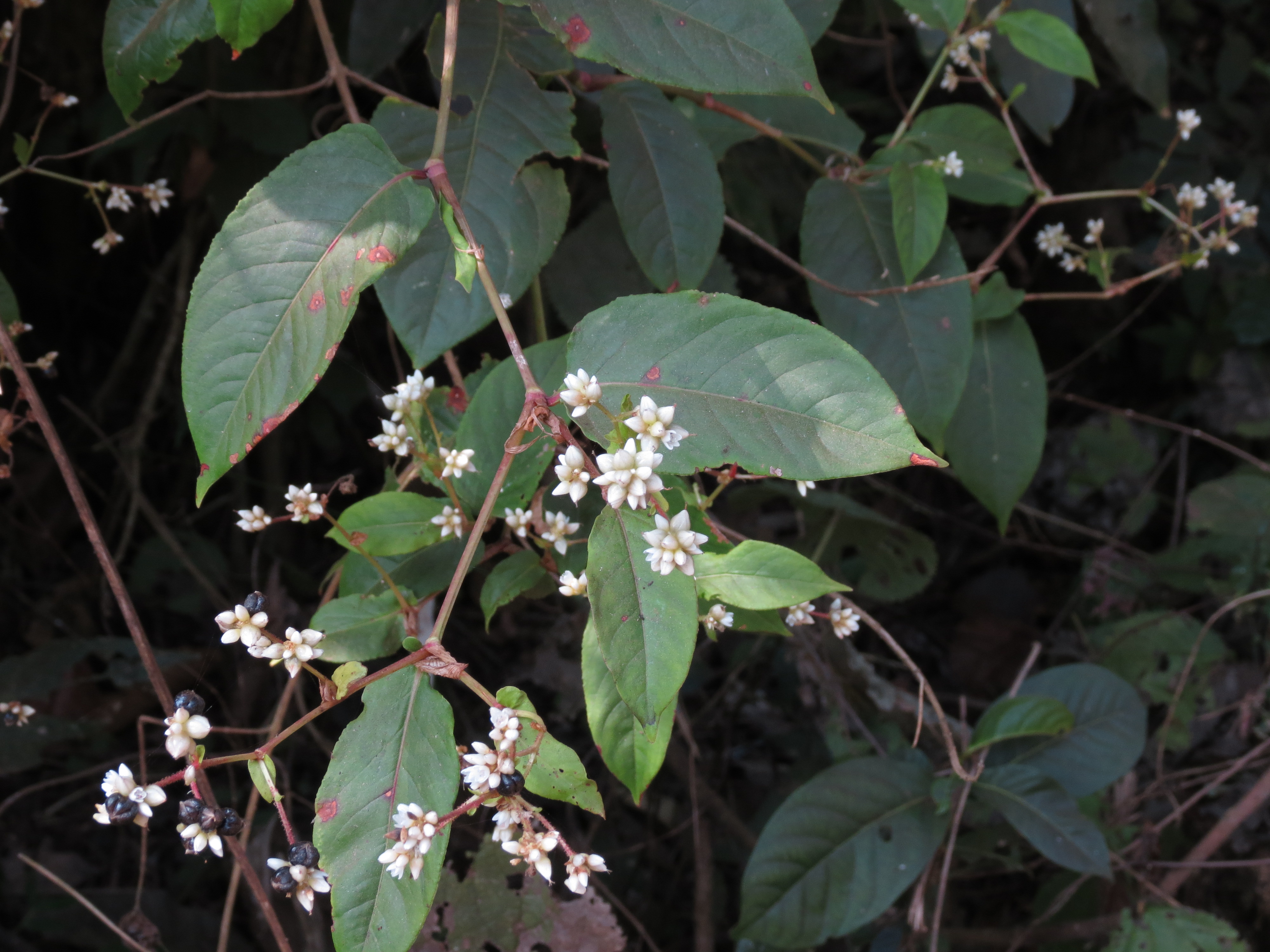 Persicaria chinensis seen in Ganeshgudi Karnataka